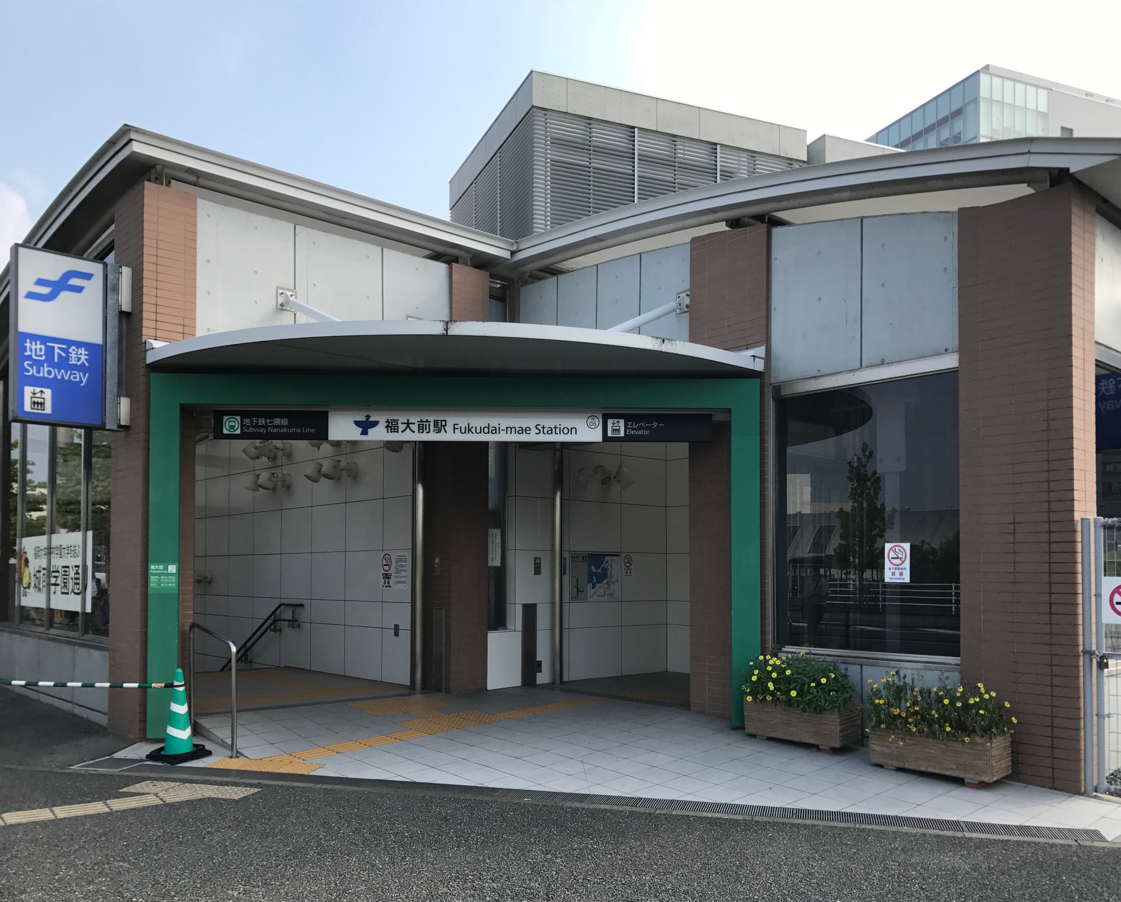 Entrance No. 2 to Fukudai-mae Station on the Fukuoka Subway in Fukuoka, Japan